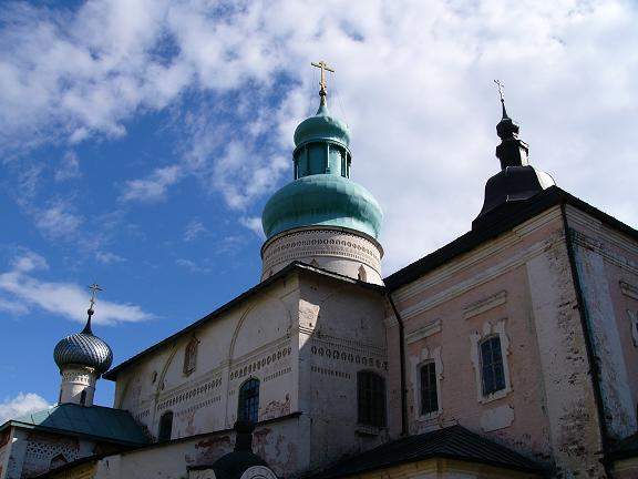 Kirillo-Belozersky Monastery. Uspensky Cathedral (1497)